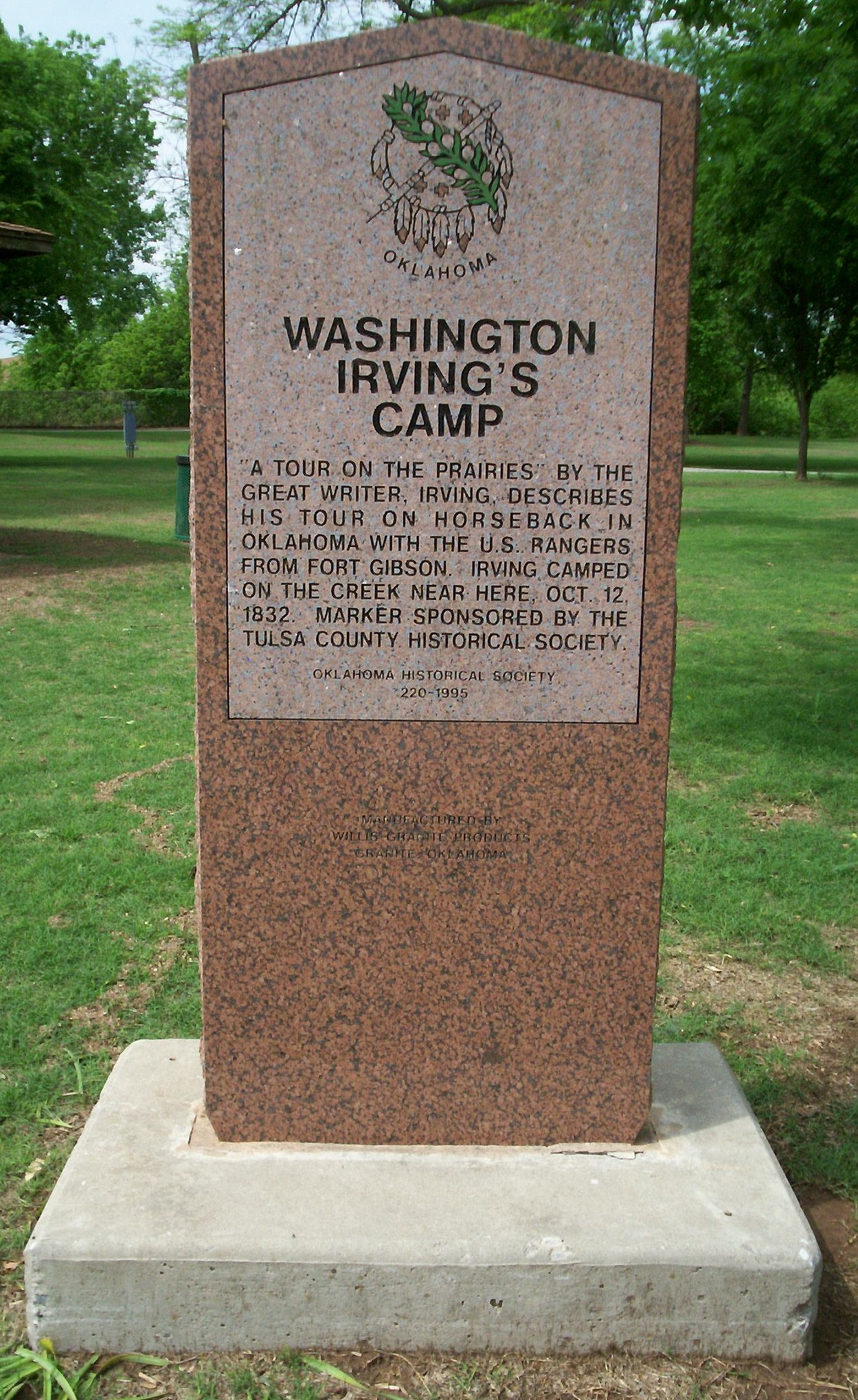 Granite historical marker at Washington Irving Memorial Park and Arboretum in Bixby, Oklahoma.